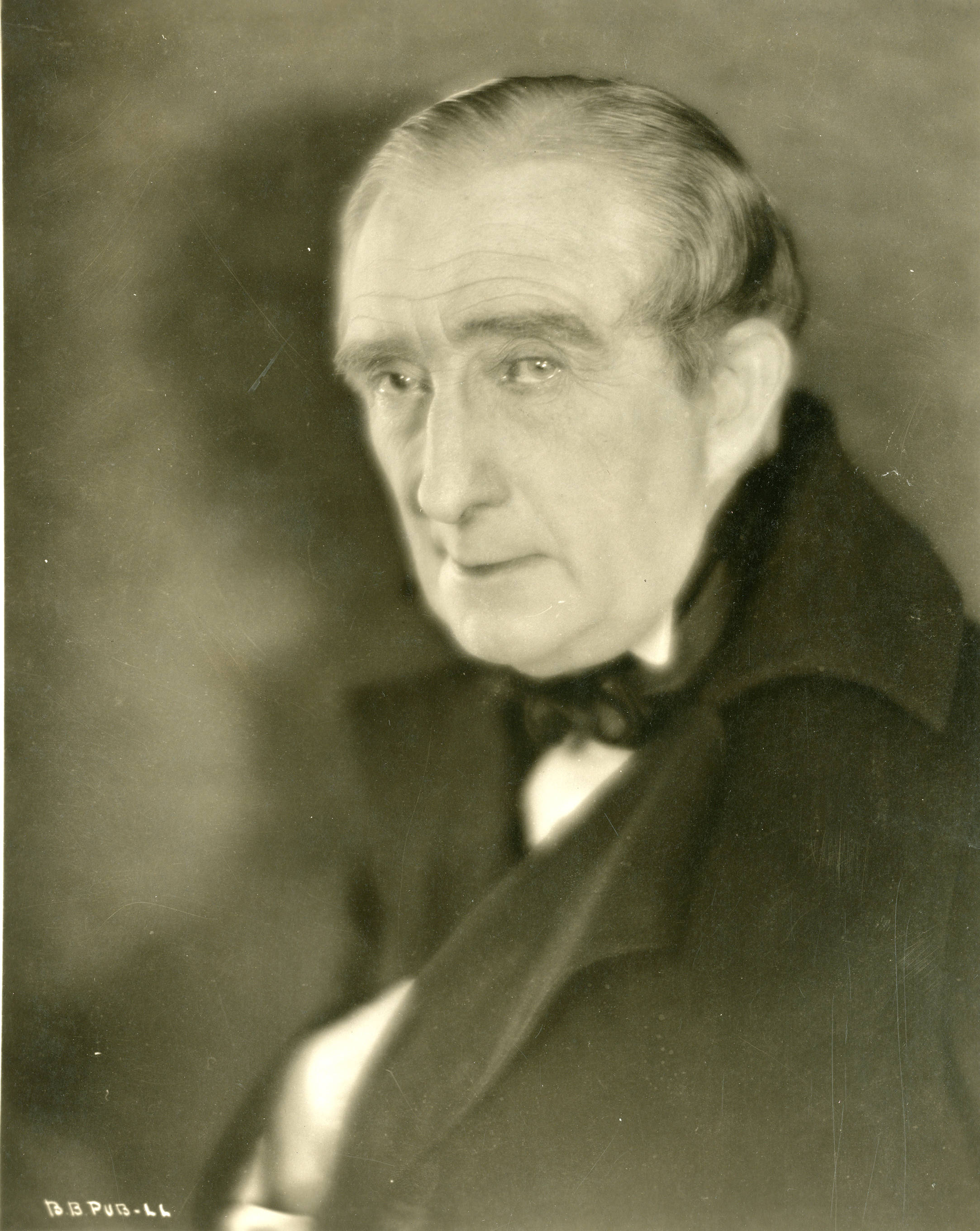 Silent film actor Alec B. Francis. Subjects: actors